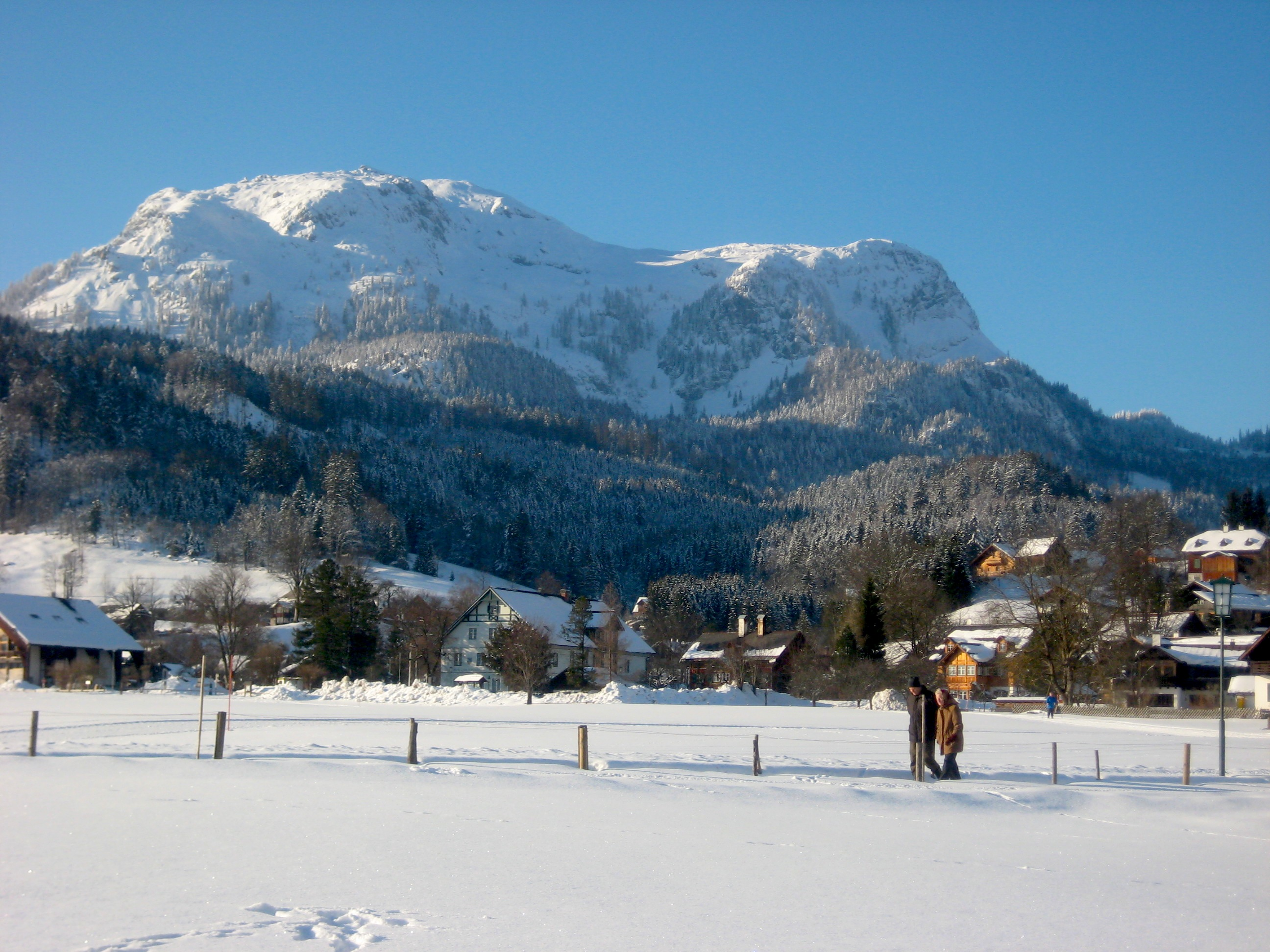 The village of Altaussee and the Sandling mountain